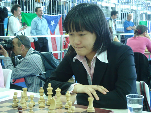 Xue Zhao, female chess player from China